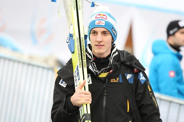 Gregor Schlierenzauer in the FIS Ski-Flying World Championships 2012